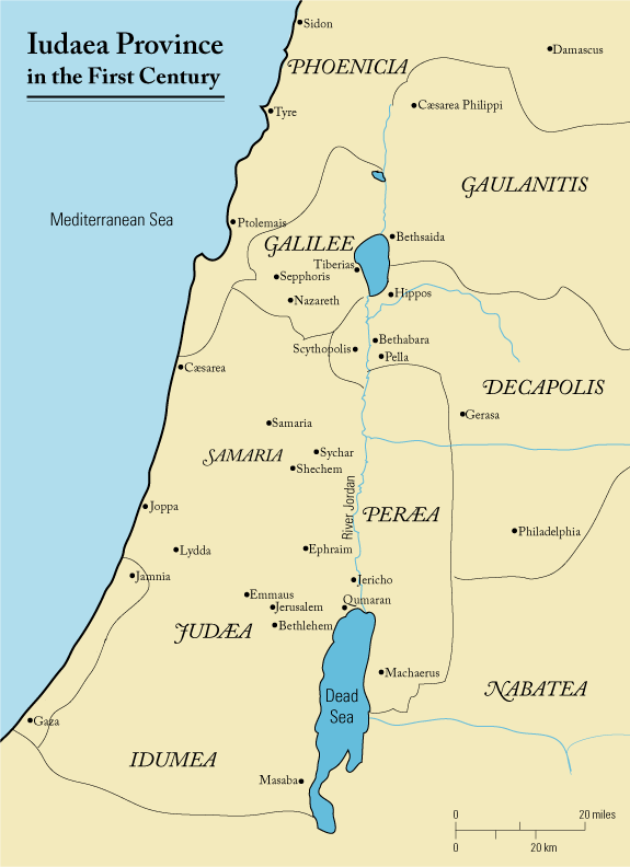 This is a map of first century Iudaea Province that I created using Illustrator CS2. I traced this image for the general geographic features. I then manually input data from maps found in a couple of sources. Robert W. Funk and the Jesus Seminar. The Acts of Jesus. HarperSanFrancisco: 1998. p. xxiv. Michael Grant. Jesus: An Historian's Review of the Gospels. Charles Scribner's Sons: 1977. p. 65-67. John P. Meier. A Marginal Jew. Doubleday: 1991. p. 1:434.